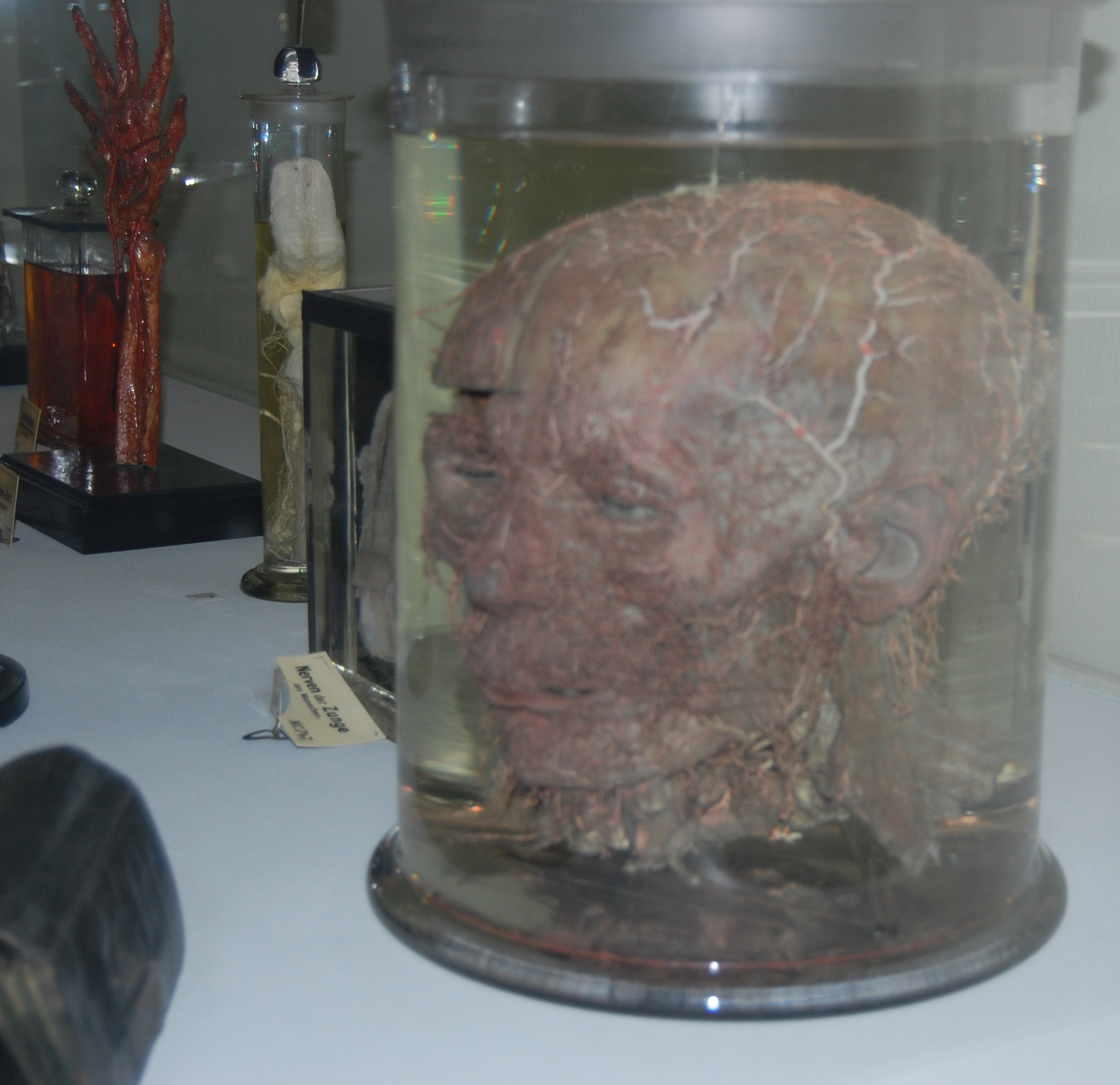 Skull with meticulously separated artheries prepared by Frederich Schlemm. Displayed in the Center for Anathomy of Charite (University of Berlin).